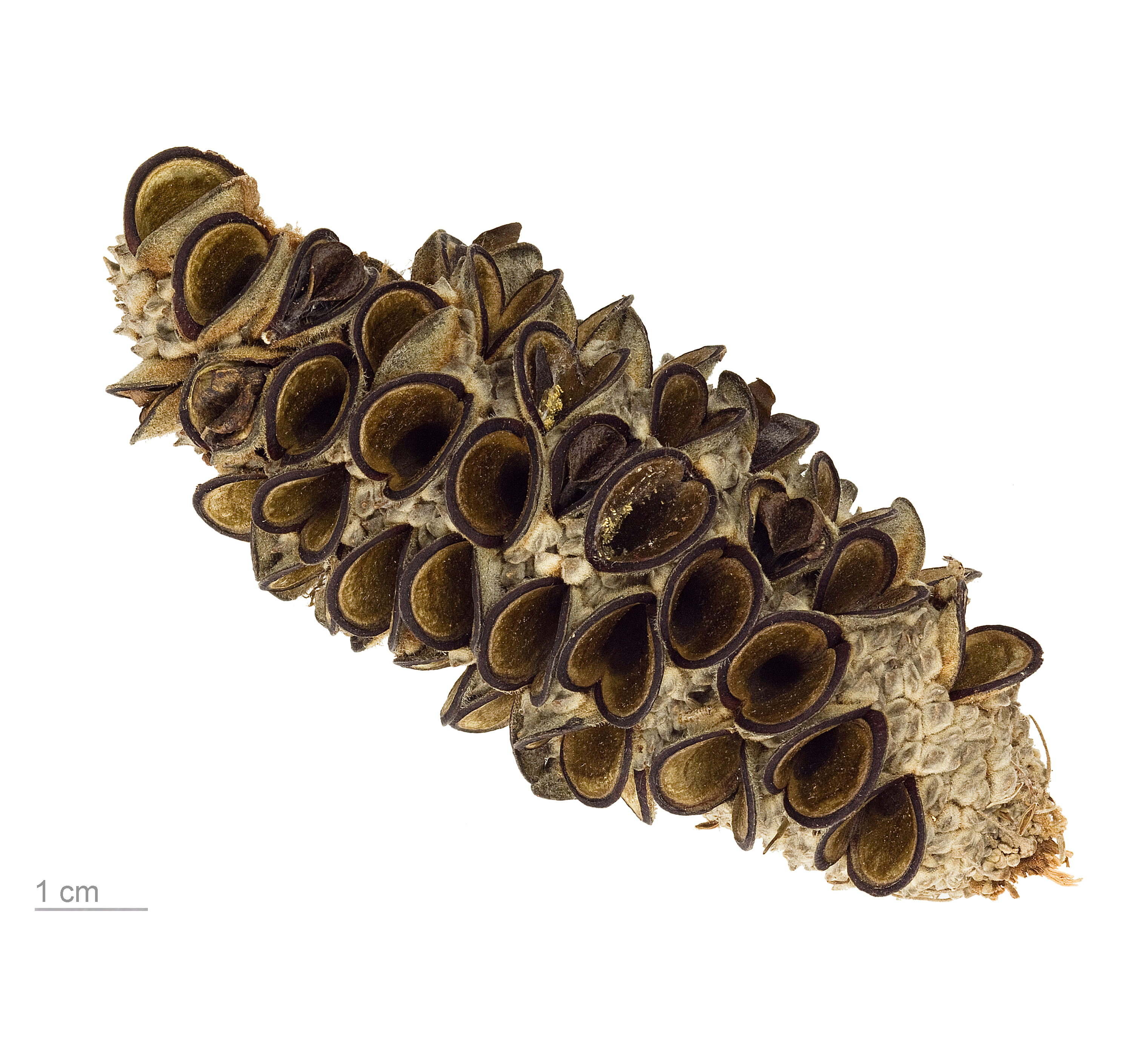 Coast Banksia, fruits and seeds